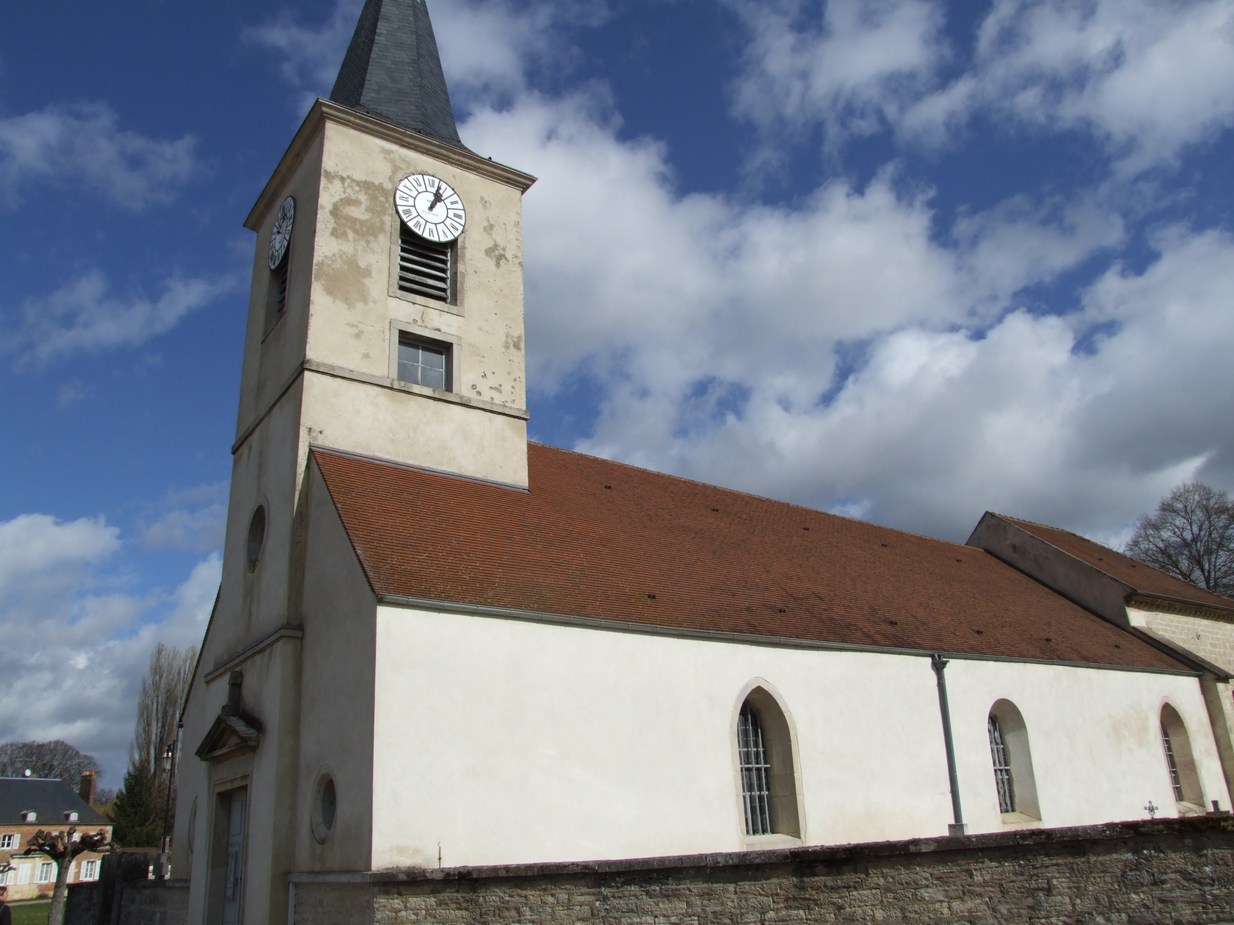 Longecourt-en-Plaine, Burgundy, FRANCE